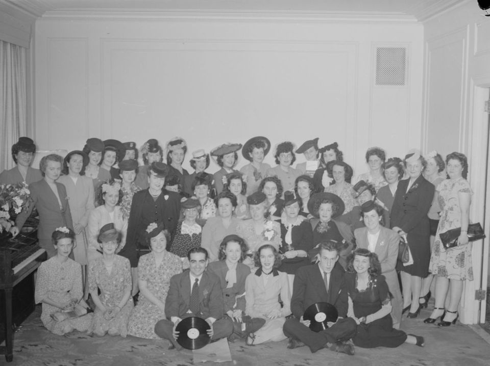 We see a group of Radio-Canada employees. Two men in the group take a disc.